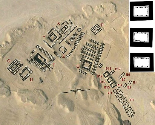 Plan of the Tomb of Hor-Aha